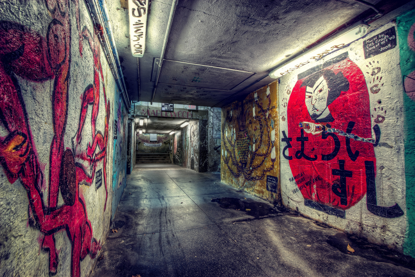 Maplewood, NJ train station